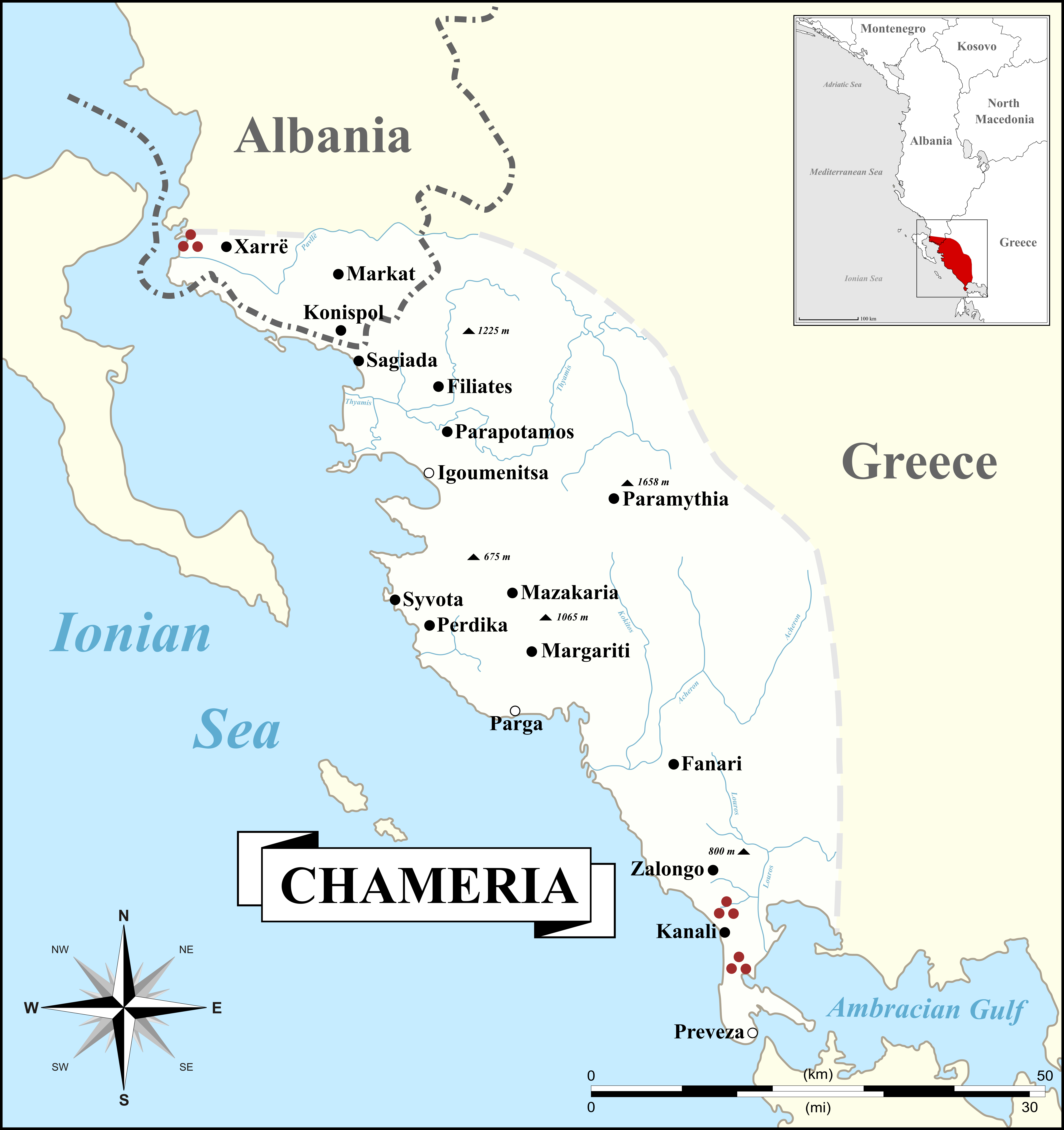 Map that depicts the approximative outlines of the historical region of Chameria.